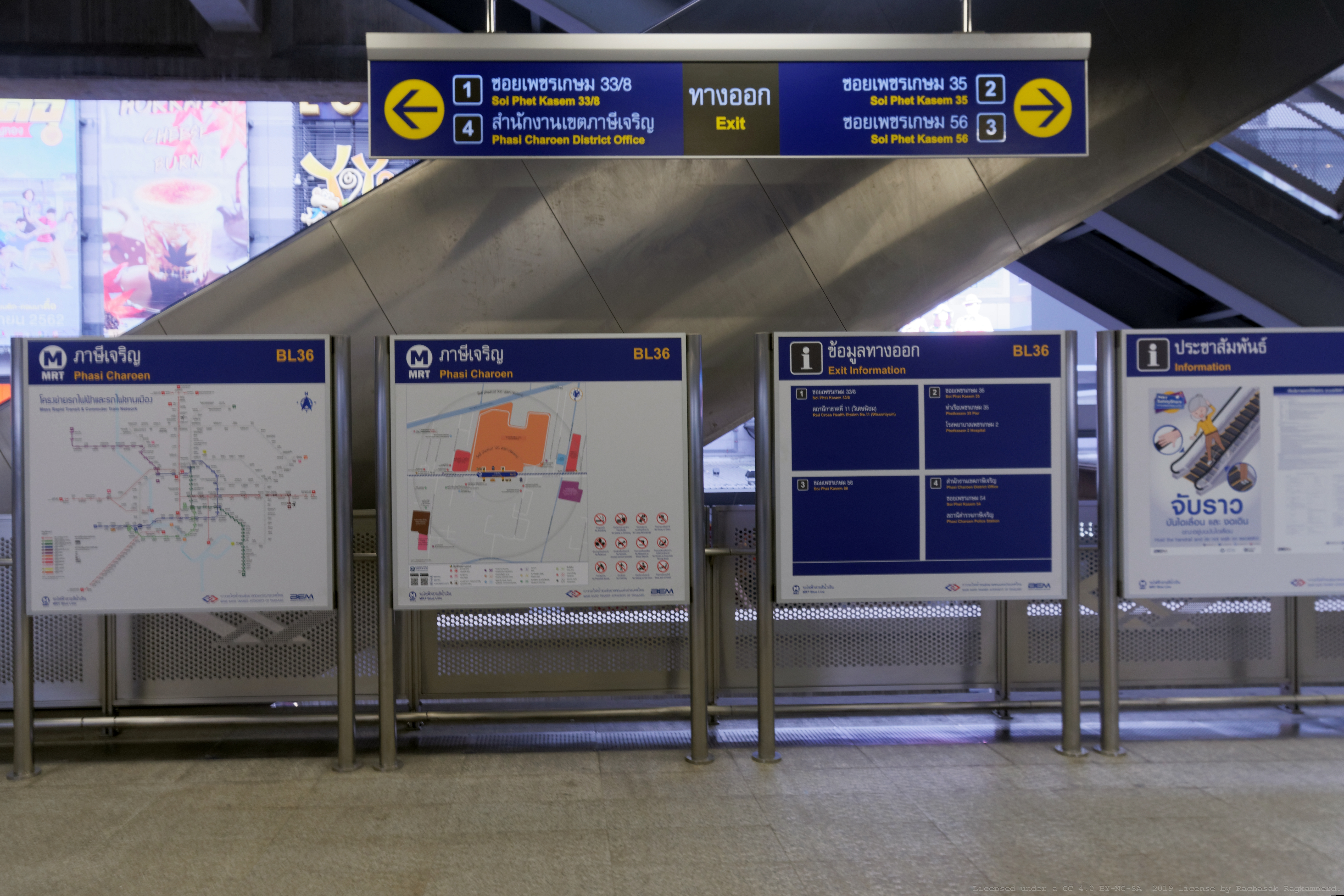 MRT Phasi Charoen station: Station exit and information signs